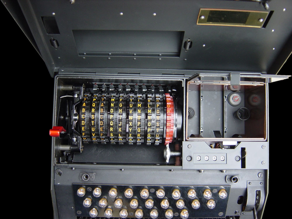 The ten rotors of a NEMA (machine). Photograph by Bob Lord, source: [1]. Author agreed to license this photograph under the terms of the GFDL after an email exchange with User:Matt Crypto.